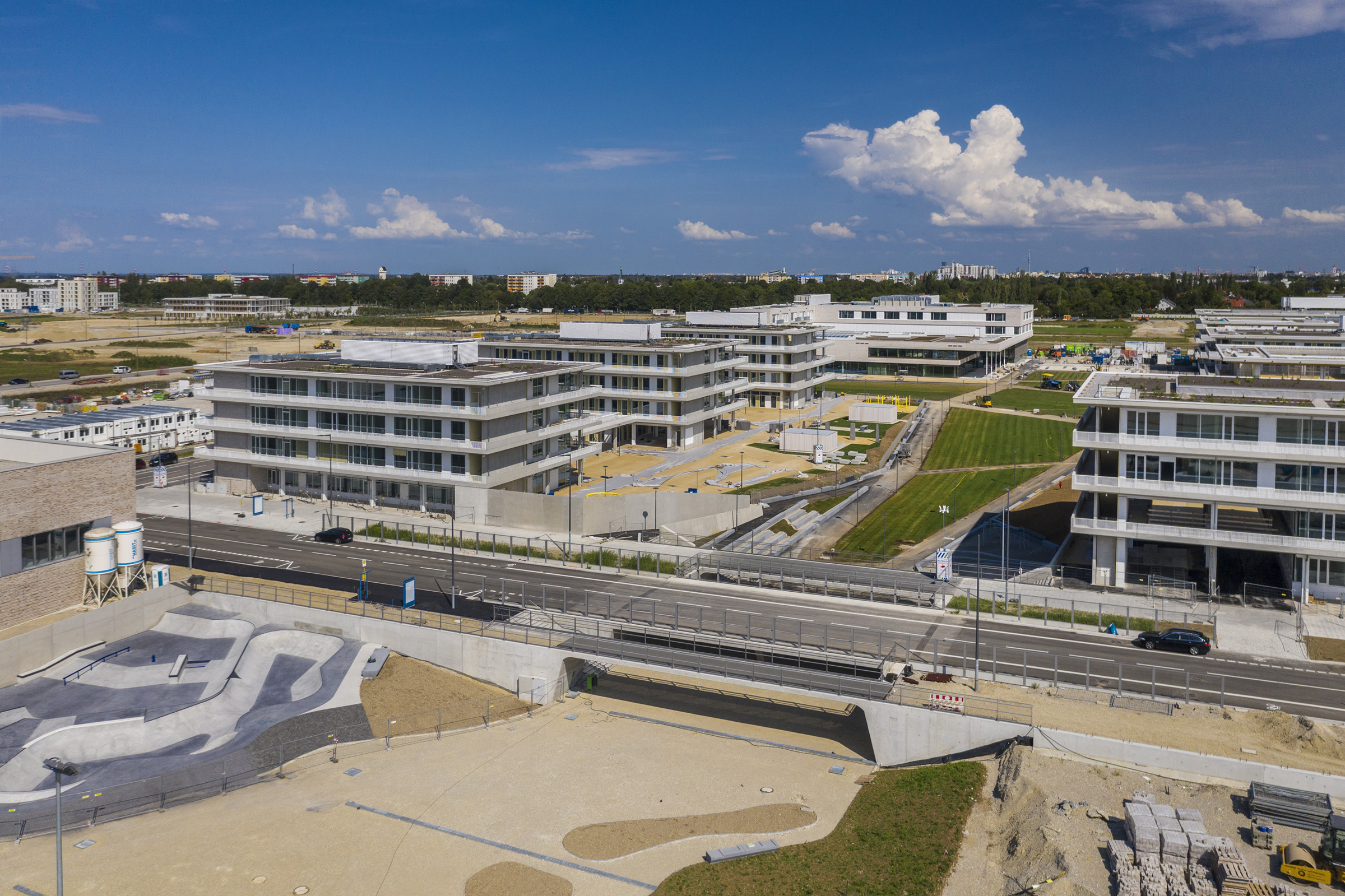 Bildungscampus Freiham